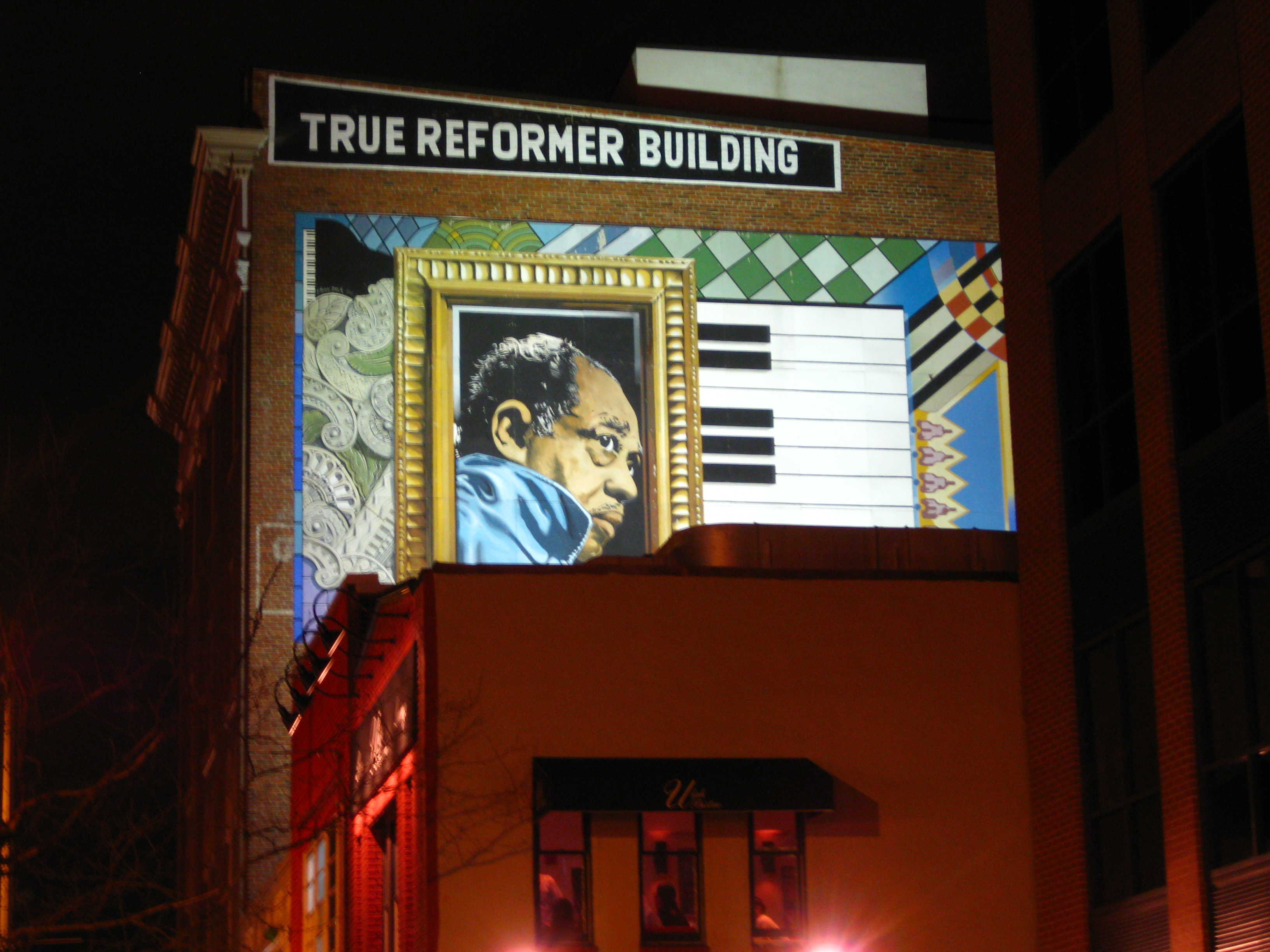 Mural of Duke Ellington at the True Reformer Building on U Street NW in Washington, D.C.